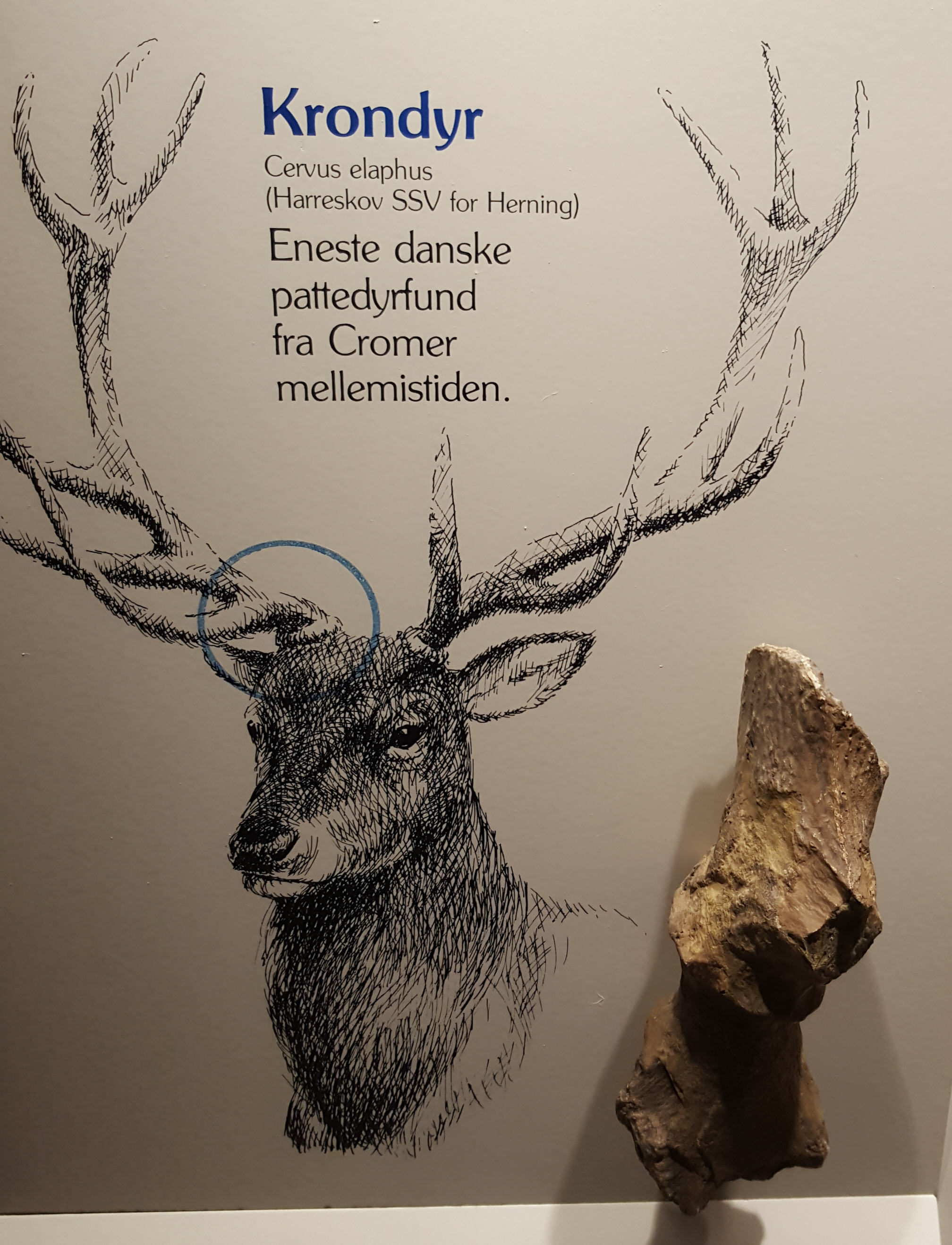 Picture of Cervus elaphus find from the Cromerian interglacial stage, Århus museum of Natural History, Århus, Denmark